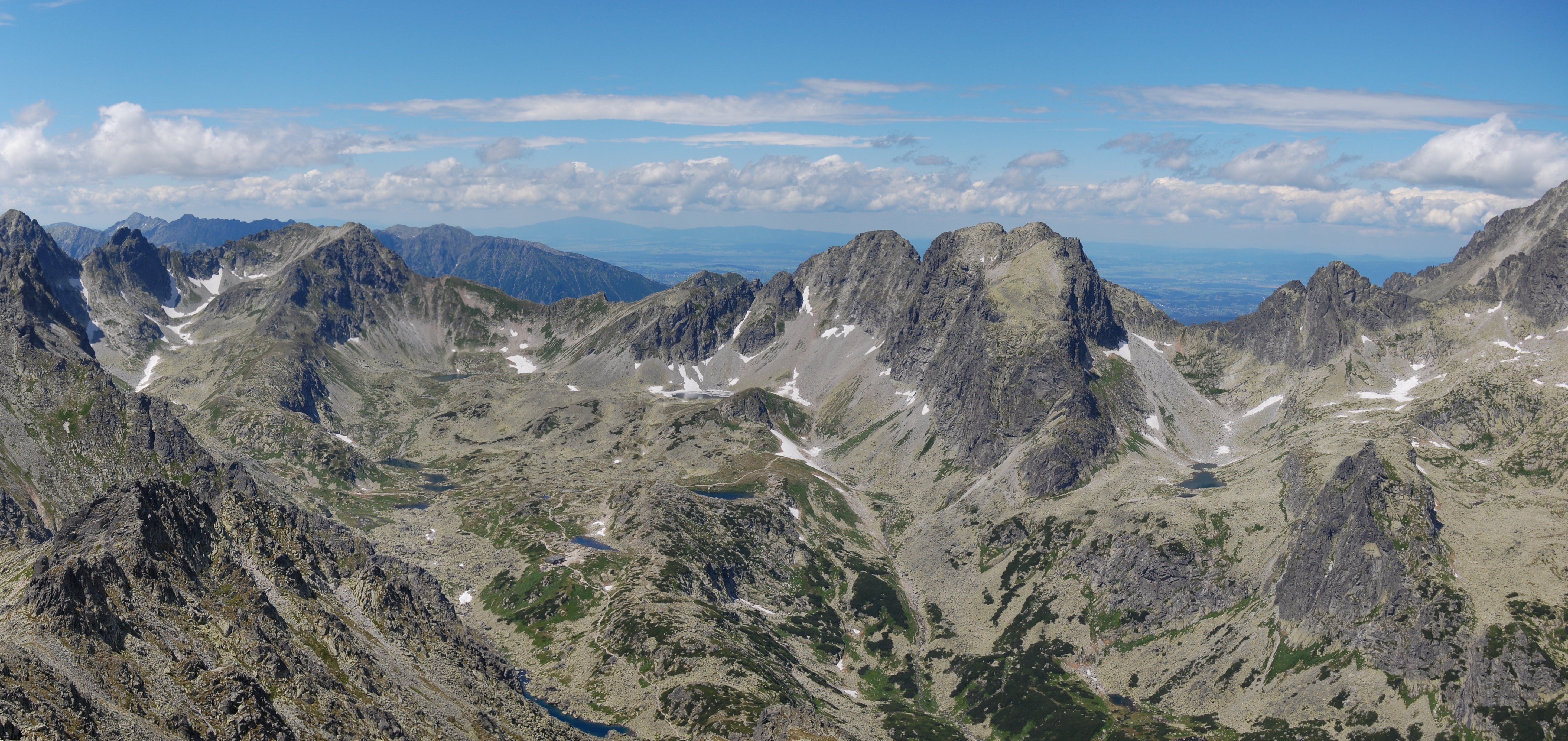 Upper part of the Veľká Studená dolina, High Tatras, Slovakia.